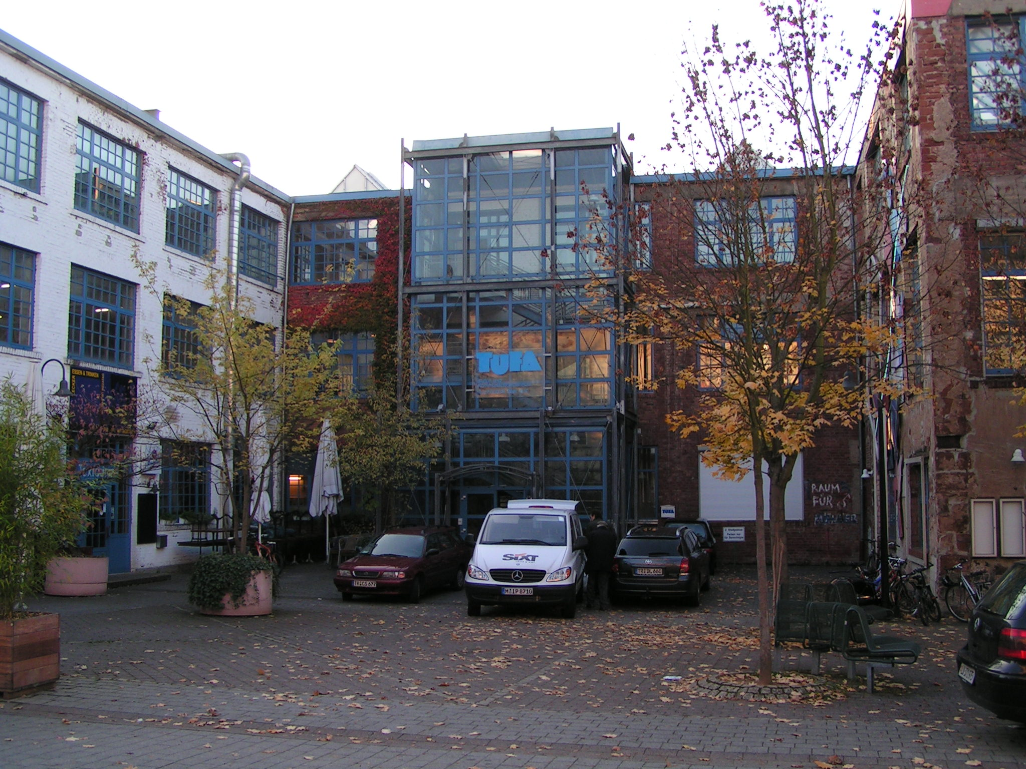 Tuchfabrik in Trier, Germany